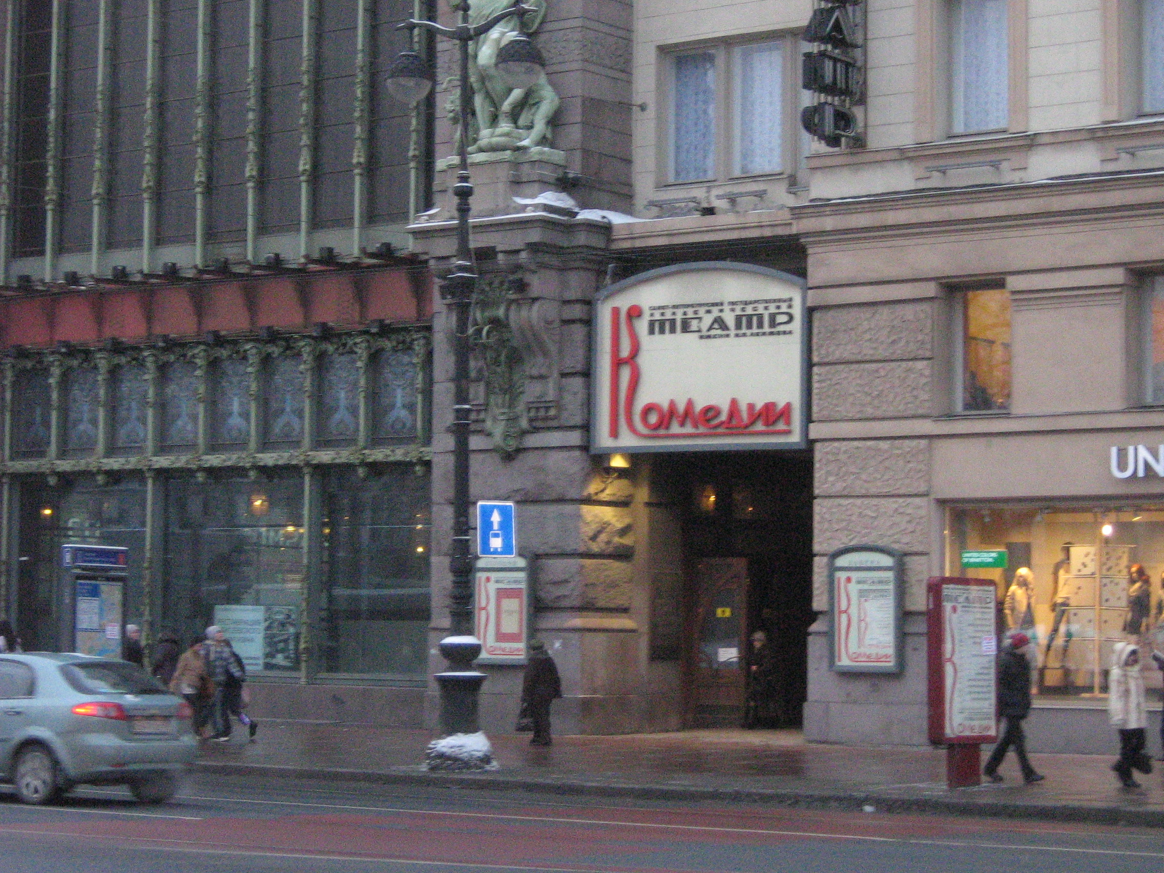 Saint Petersburg (Russia), Nevsky Avenue